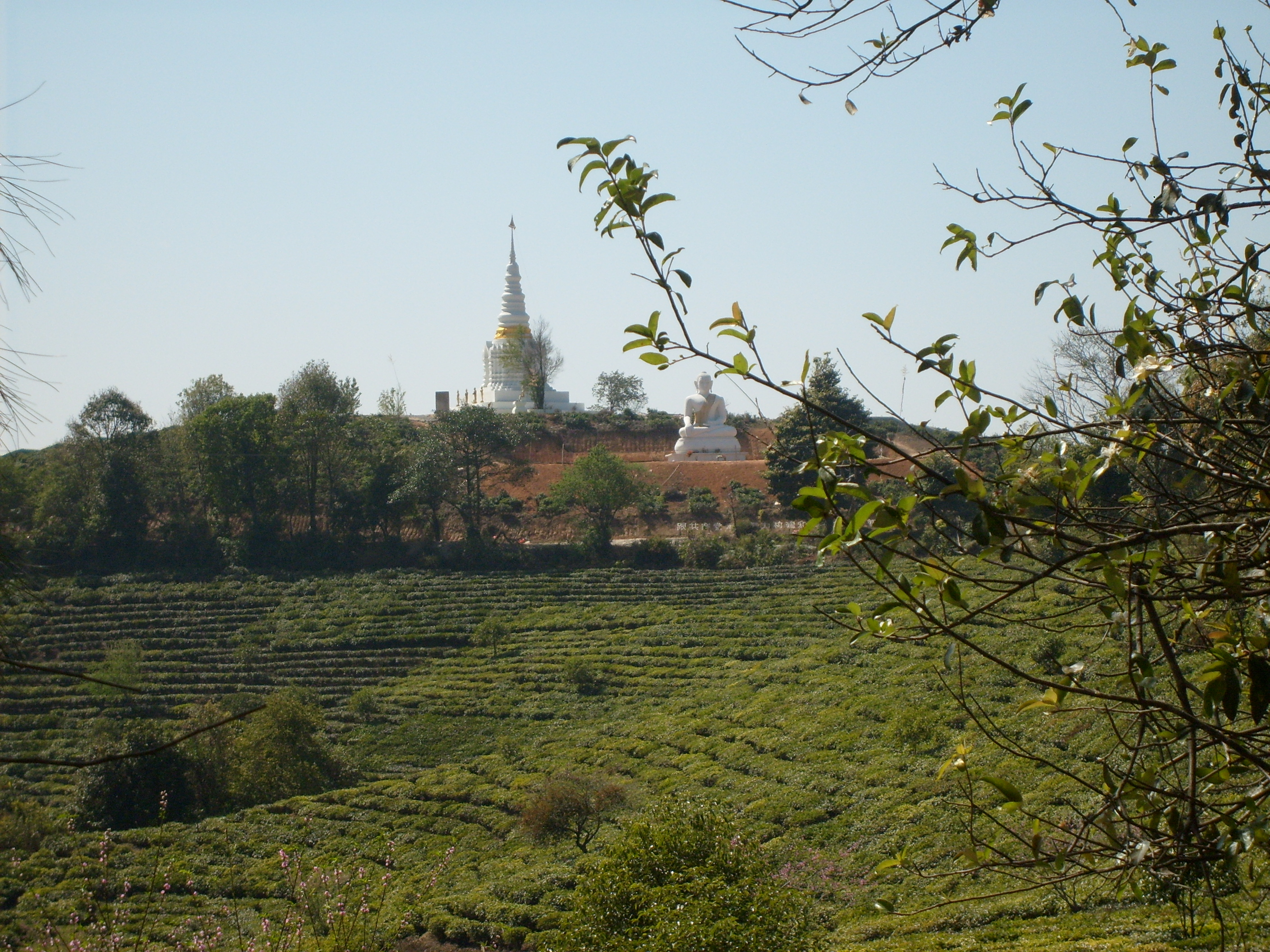 Pu-erh tea shown at the front is originally from this region. At the back is a Buddha statue overseeing the valley and a stupa that can be seen from a great distance on both sides. This photo was taken close to Xiding.